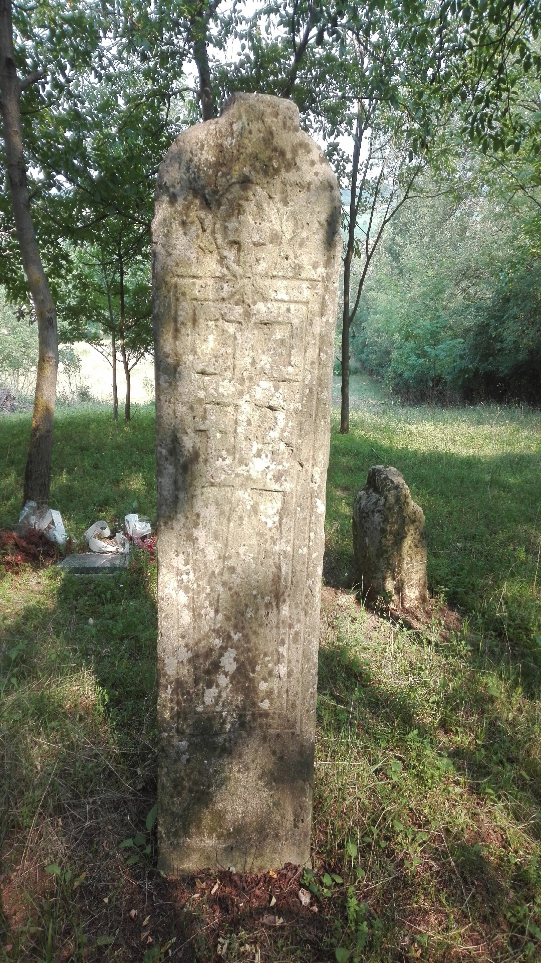 The tombstone of Milisav Čamdžija, Veliki Borak